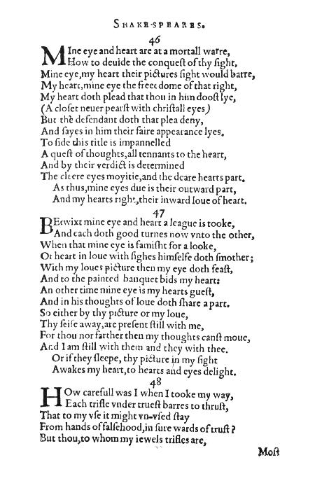 Image_facsimil